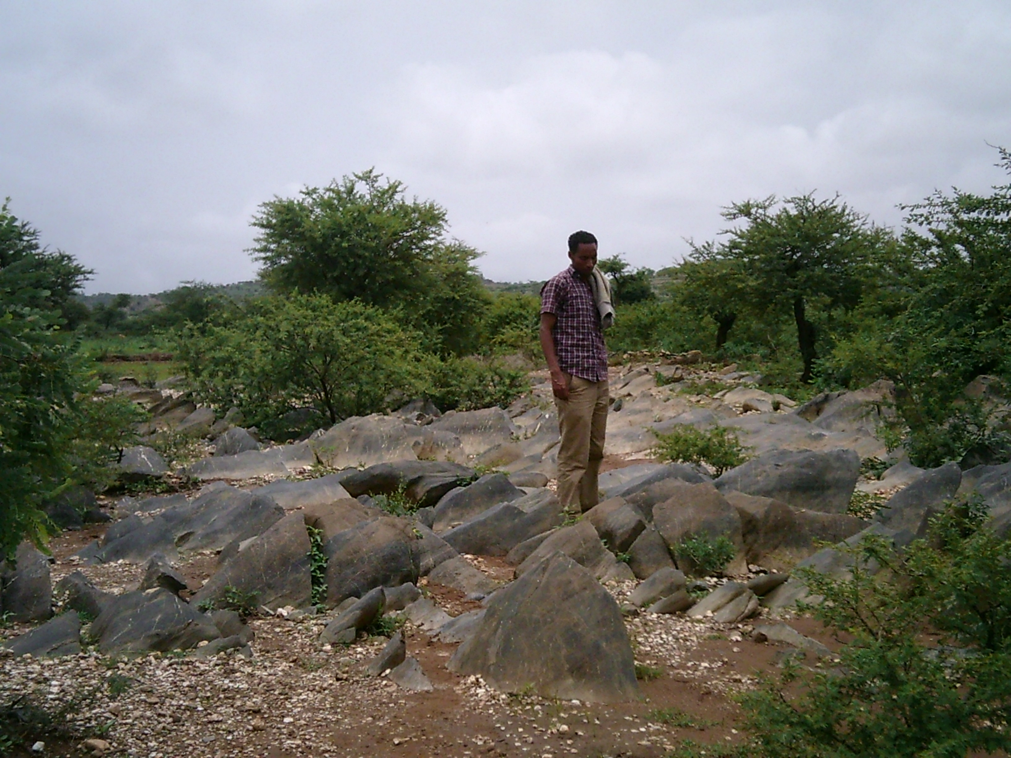 Black meta-limestone outcropping near Taget. Note the presence of white quartz fragments at the soil surface that originate from quartz veins.